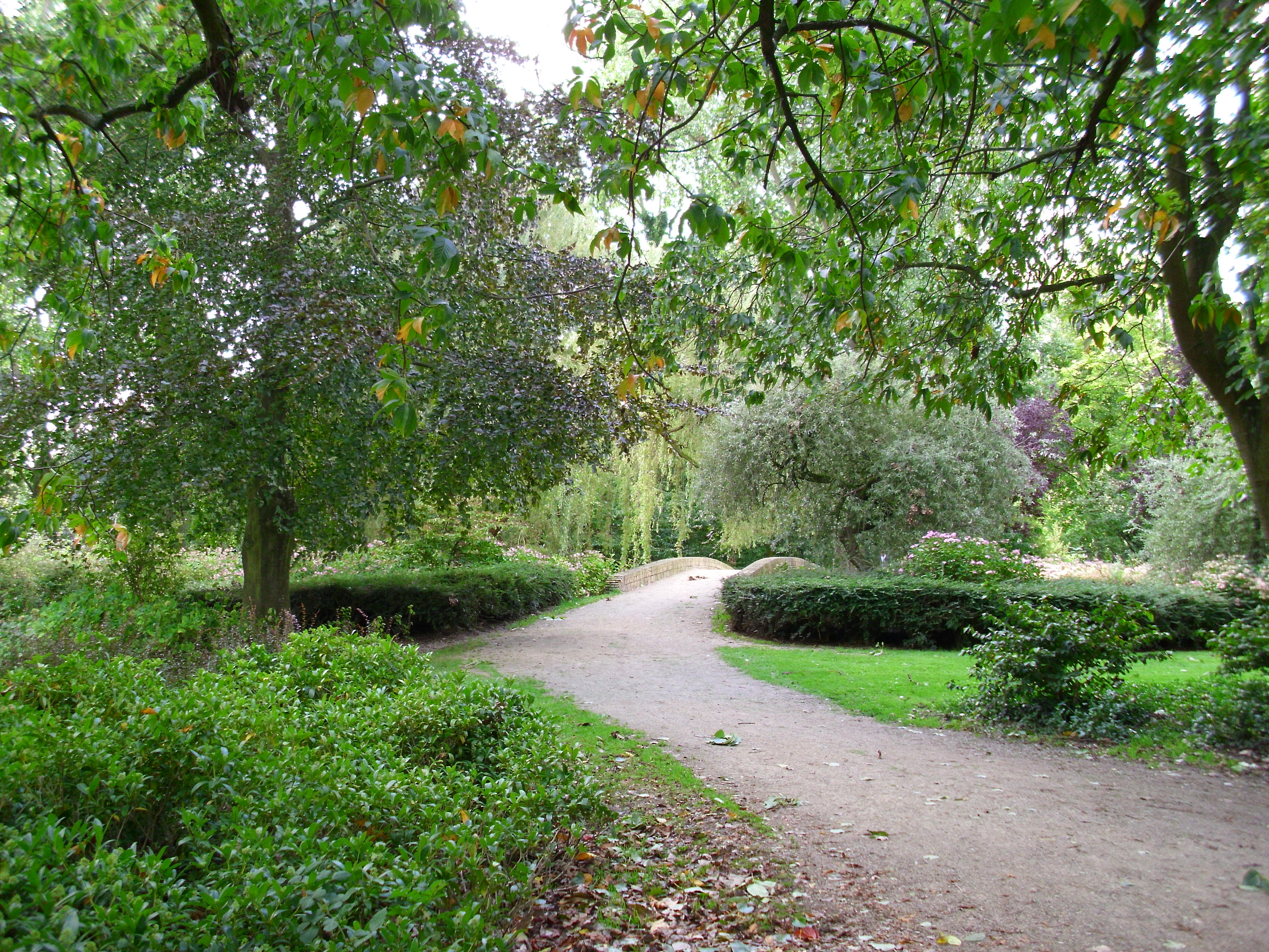 Site in Delft Wilhelminapark